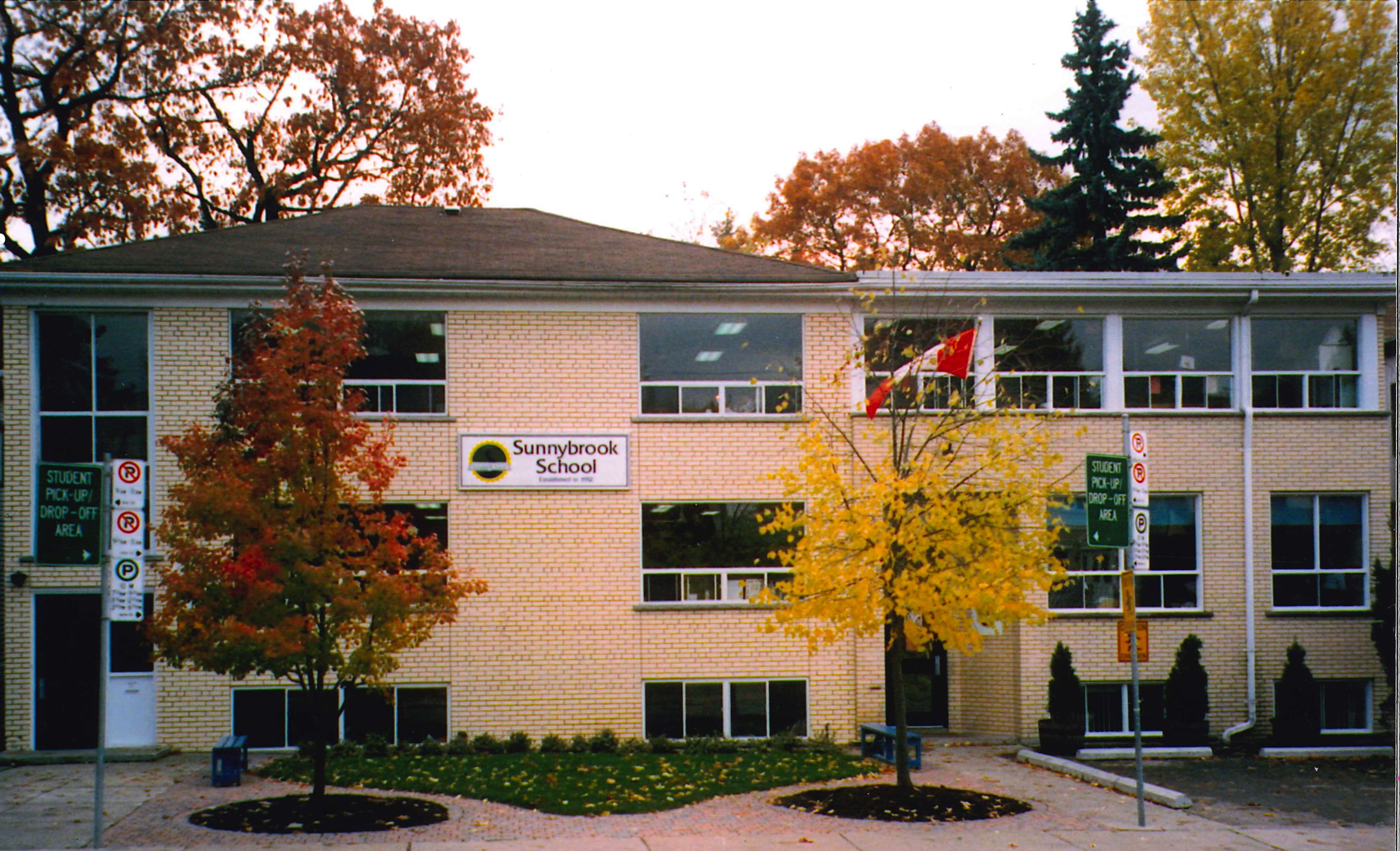 Photo of Sunnybrook School (Toronto) showing the facility after first expansion and renovation (circa 1985).